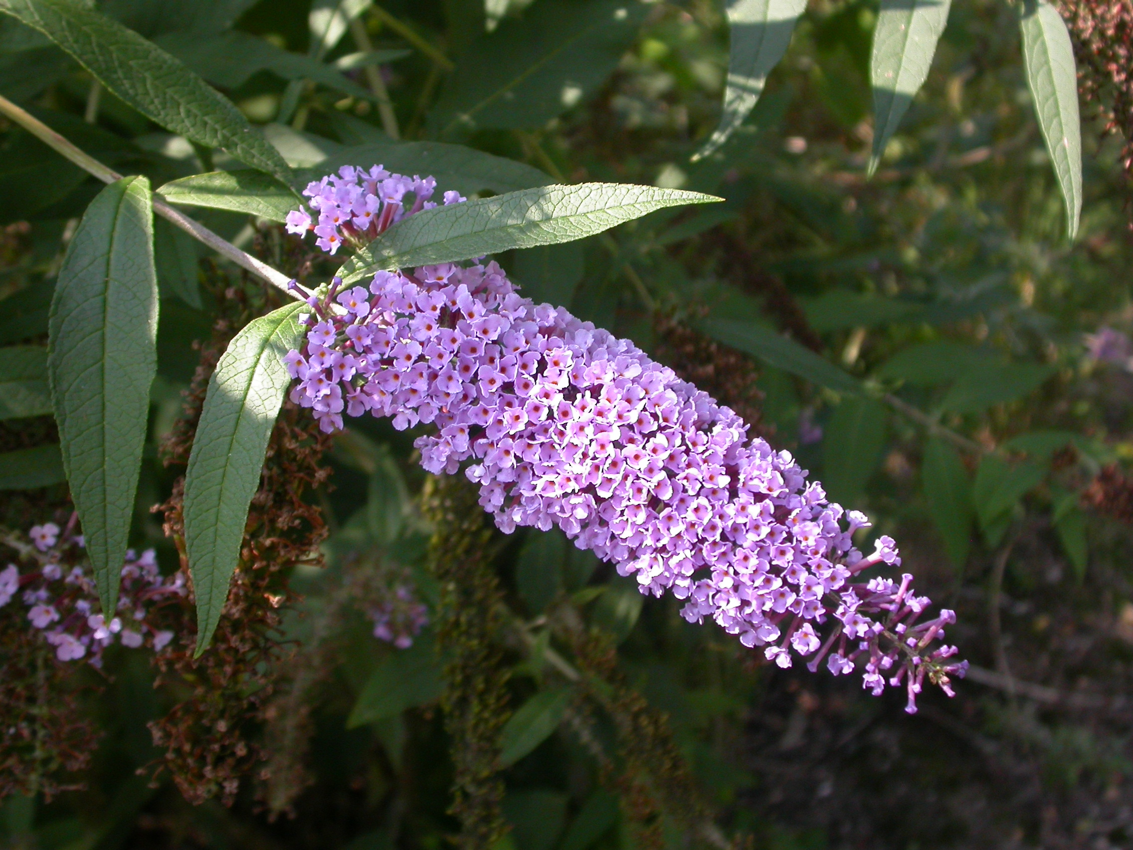 An invasive plant that is able to dominate very rapidly ruderal biotopes (wastelands) that are crucial for many insects and plant species. It seems particularly problematic in cities where wastelands are an important part of semi-natural biotopes.